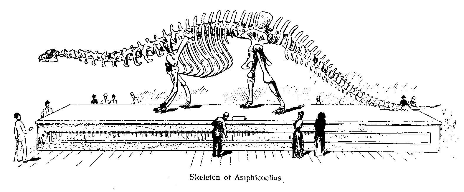 Sharp, Amphicoelias altus skeleton on display. Published in The Californian.